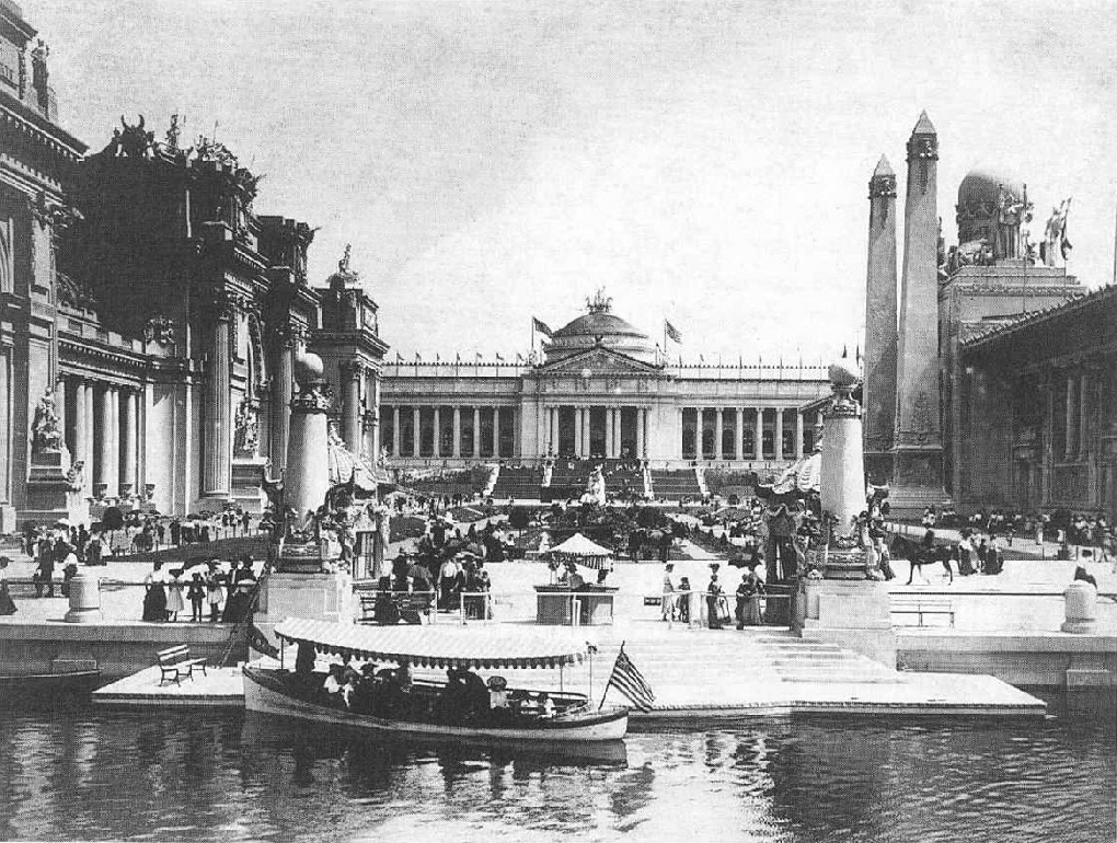 "Neoclassical architecture in the Government Building at the Louisiana Purchase Exposition" (aka St. Louis World's Fair, 1904)